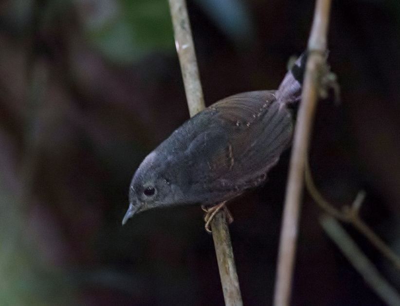 Diamantina tapaculo at Chapada Diamantina, Bahia, Brazil